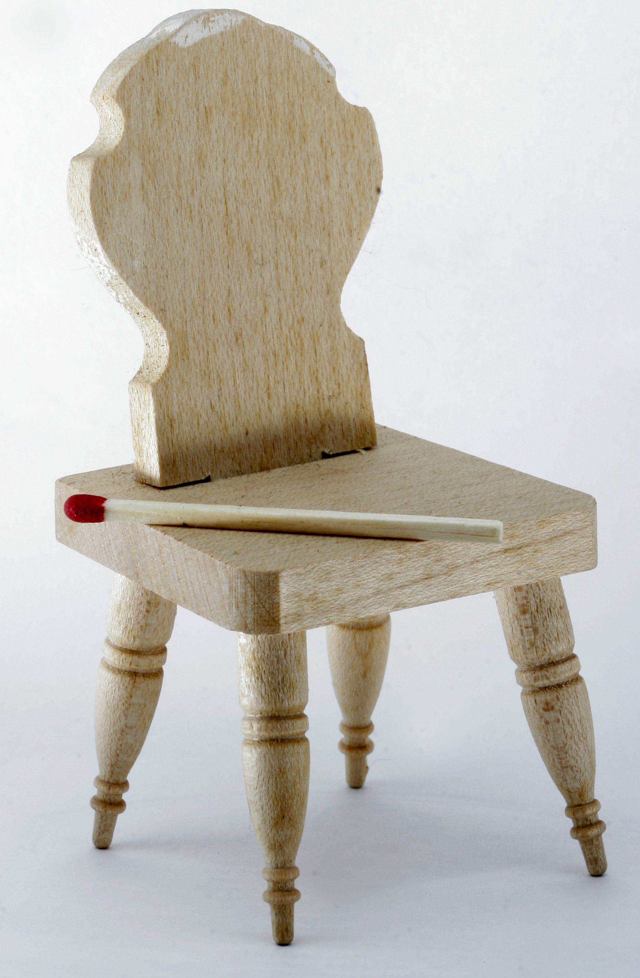 Dollhouse chair, with a match as a scale